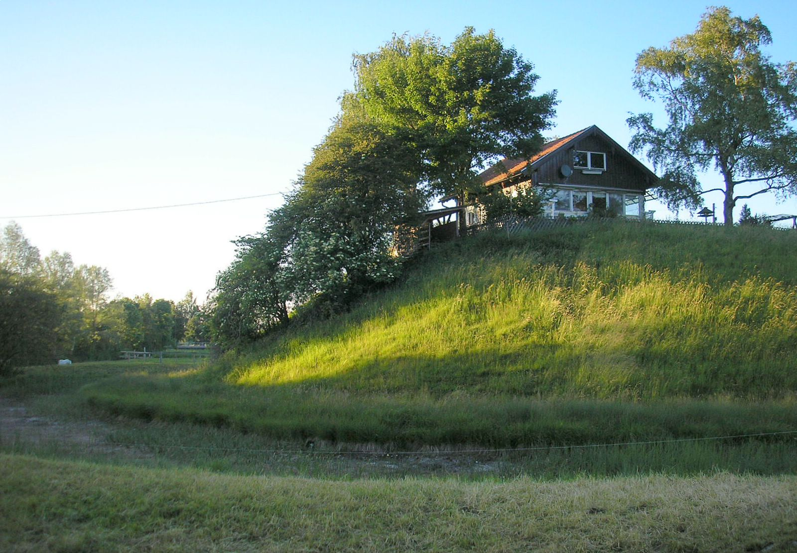 High Middle Ages motte-and-bailey castle at Burk (Seeg, Landkreis Ostallgäu, Bavaria, Germany). The central castle, looking north east